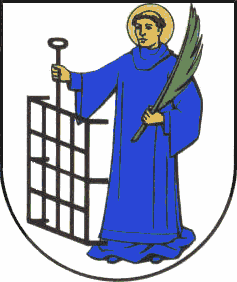 Coat of Arms of Zwenkau showing Saint Lawrence of Rome